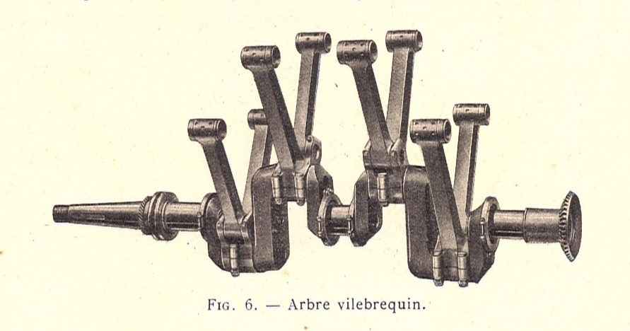 Fig. 6 Crankshaft Manual for the Renault 8 Bd engine See other images from this source in 'Renault 190HP aircraft engine manual'